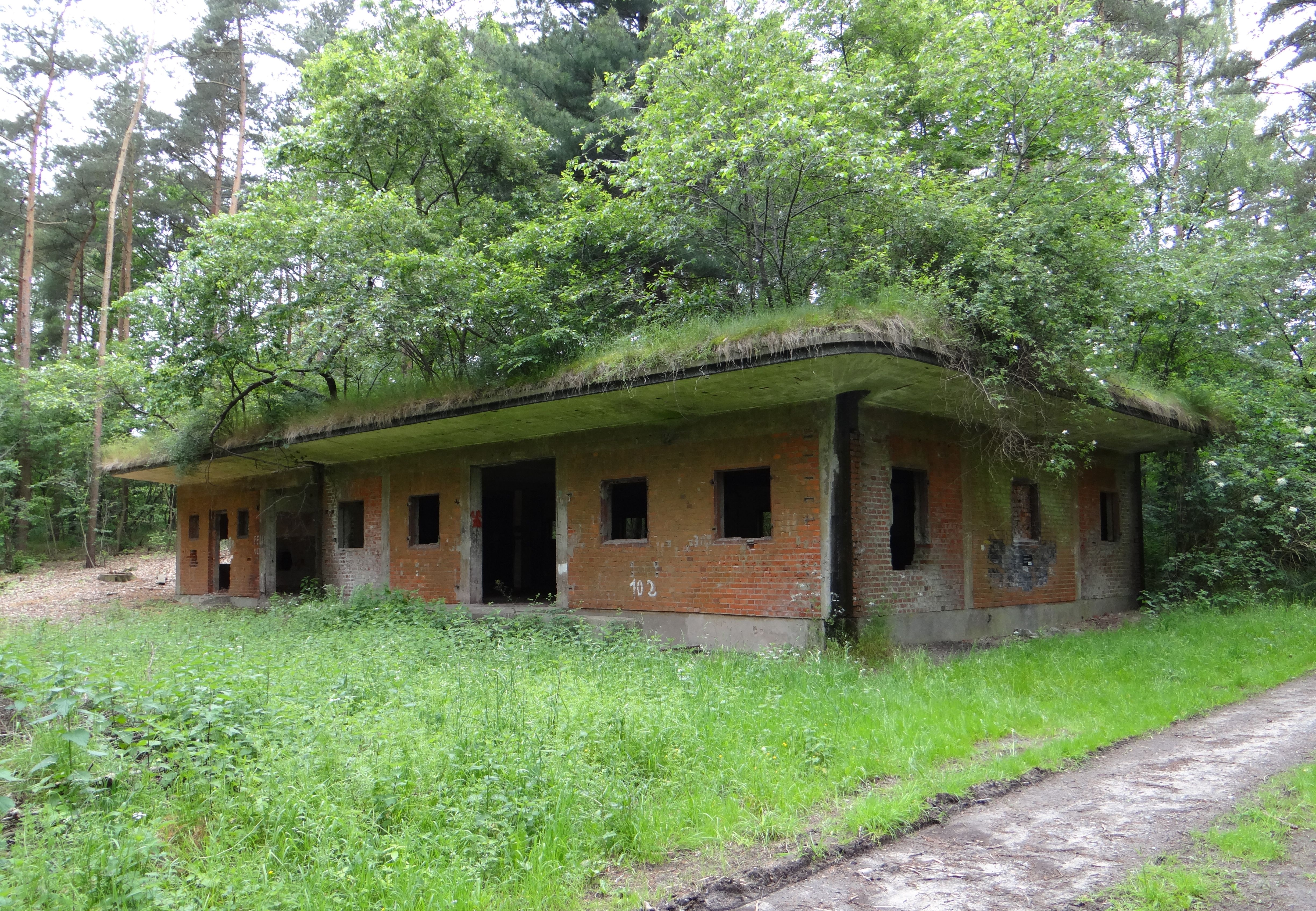 Building of the EIBIA explosives factory near Barme, Germany, which was active during World War II.